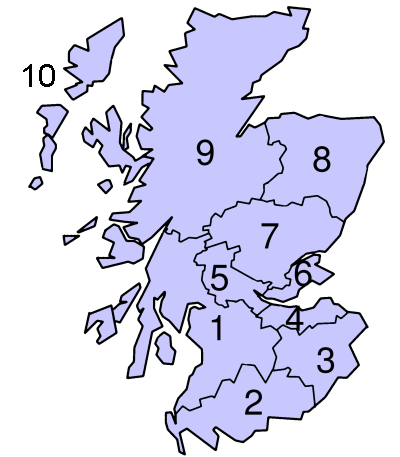 numbered maps of 1974 Subdivisions of Scotland